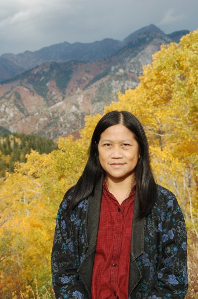 The photo shows the film director Huang Yushan in Sundance, U.S.A.